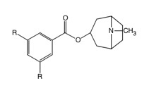 sar project